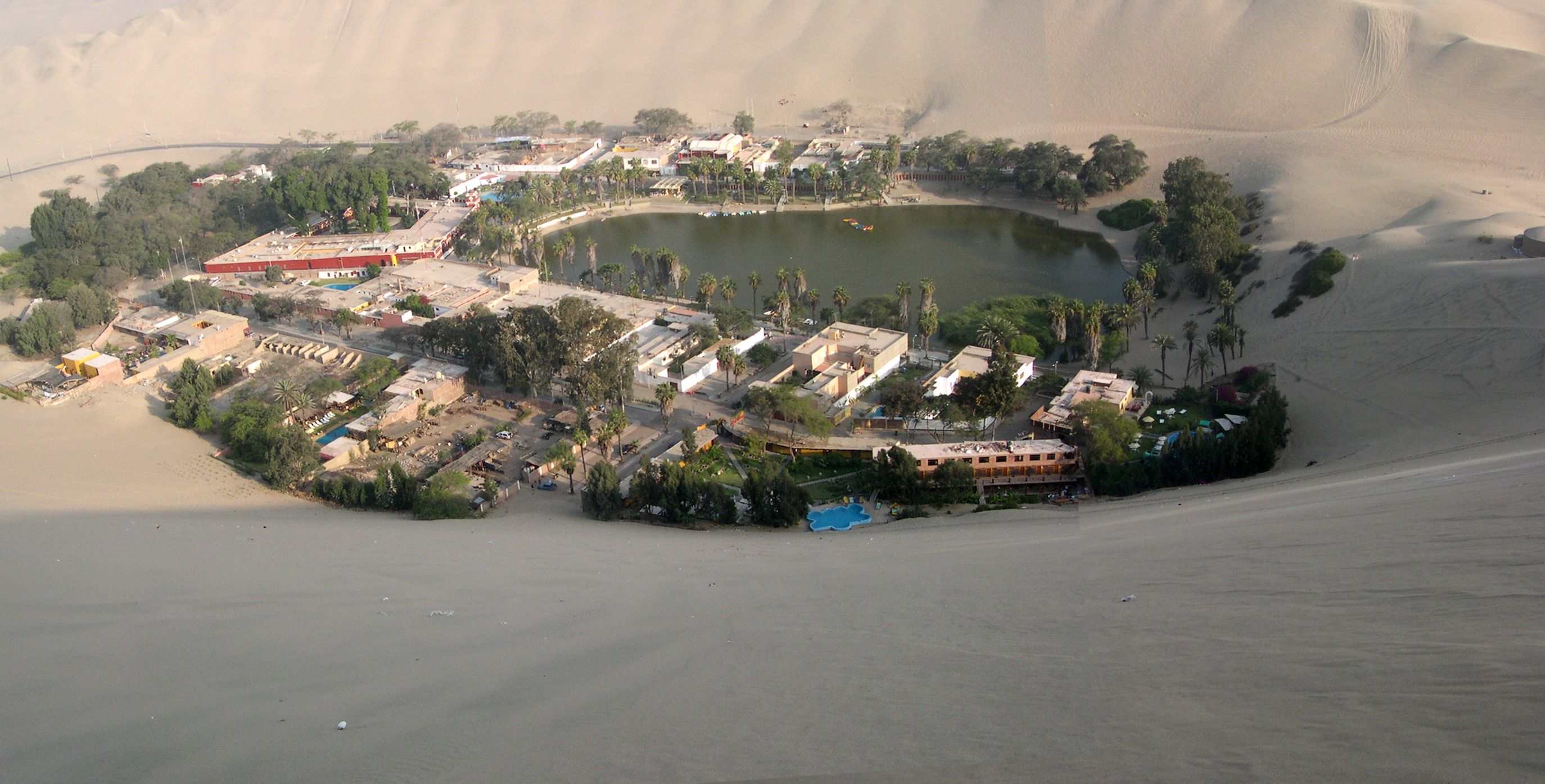 Poorly stiched together from 2 photographs taken by submitter.